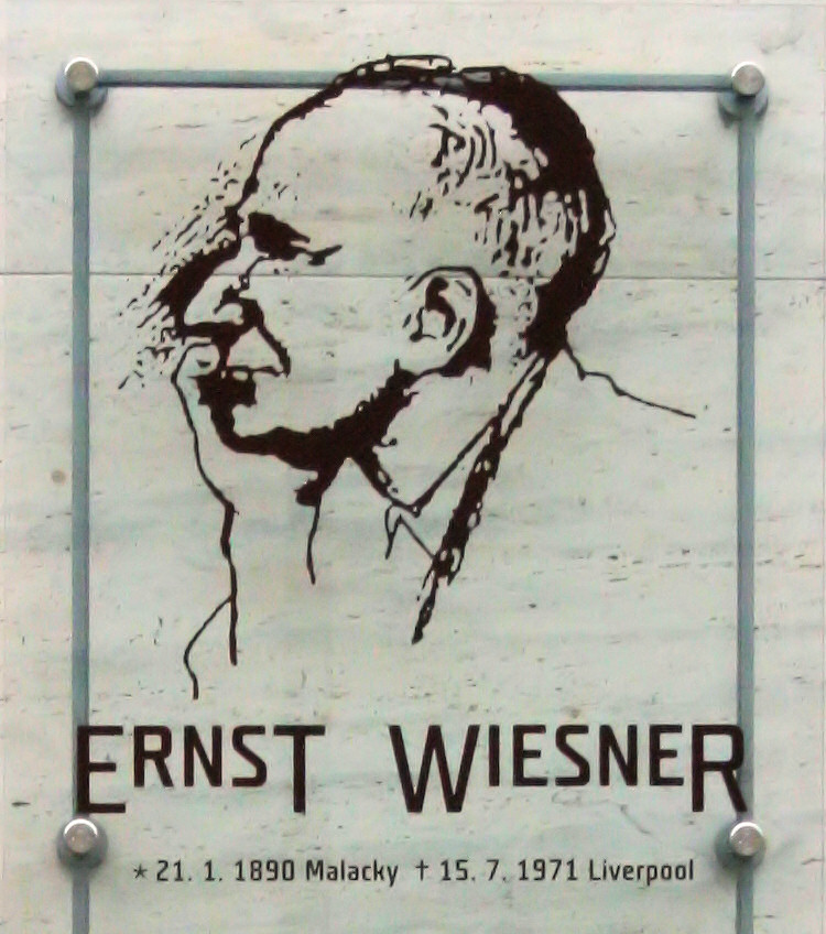 Memorial plaque to an architect Ernst Wiesner. Building of Czech Radio, Beethovenova st. No 4, Brno, Czech Republic.